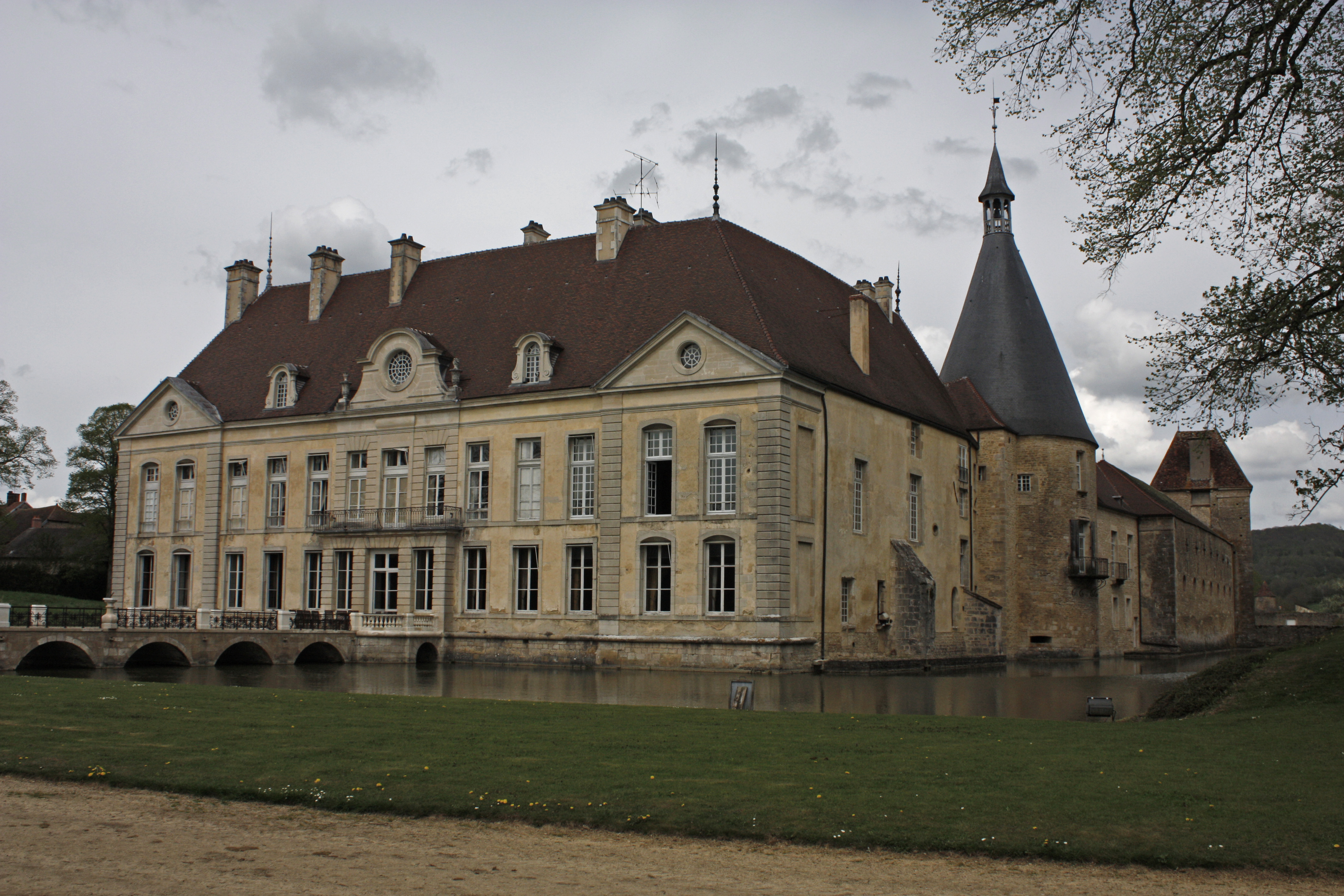 The moats, the building from the 18th century , the tower where is the chapel, the Small-Husee, the stables.